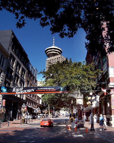 Gastown, Vancouver, British Columbia, Canada